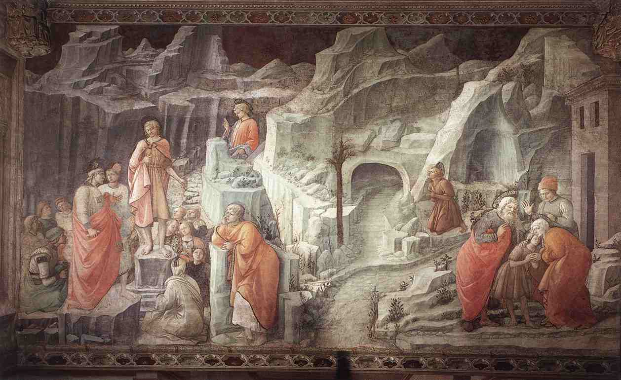 View of the fresco cycle in Prato Cathedral, Italy - St John the Baptist Taking Leave of his Parents